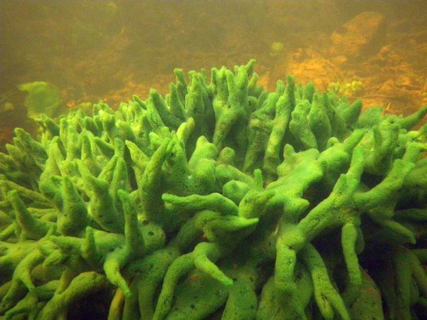 A freshwater sponge Spongilla on the river bottom in the Vitebsk Raion, Belarus.